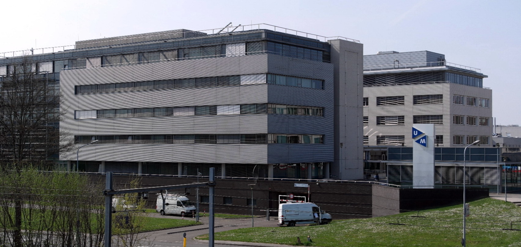 Maastricht, the Netherlands. View of Faculty of Health and Life Sciences buildings of Maastricht University in the southeastern Randwyck business district.